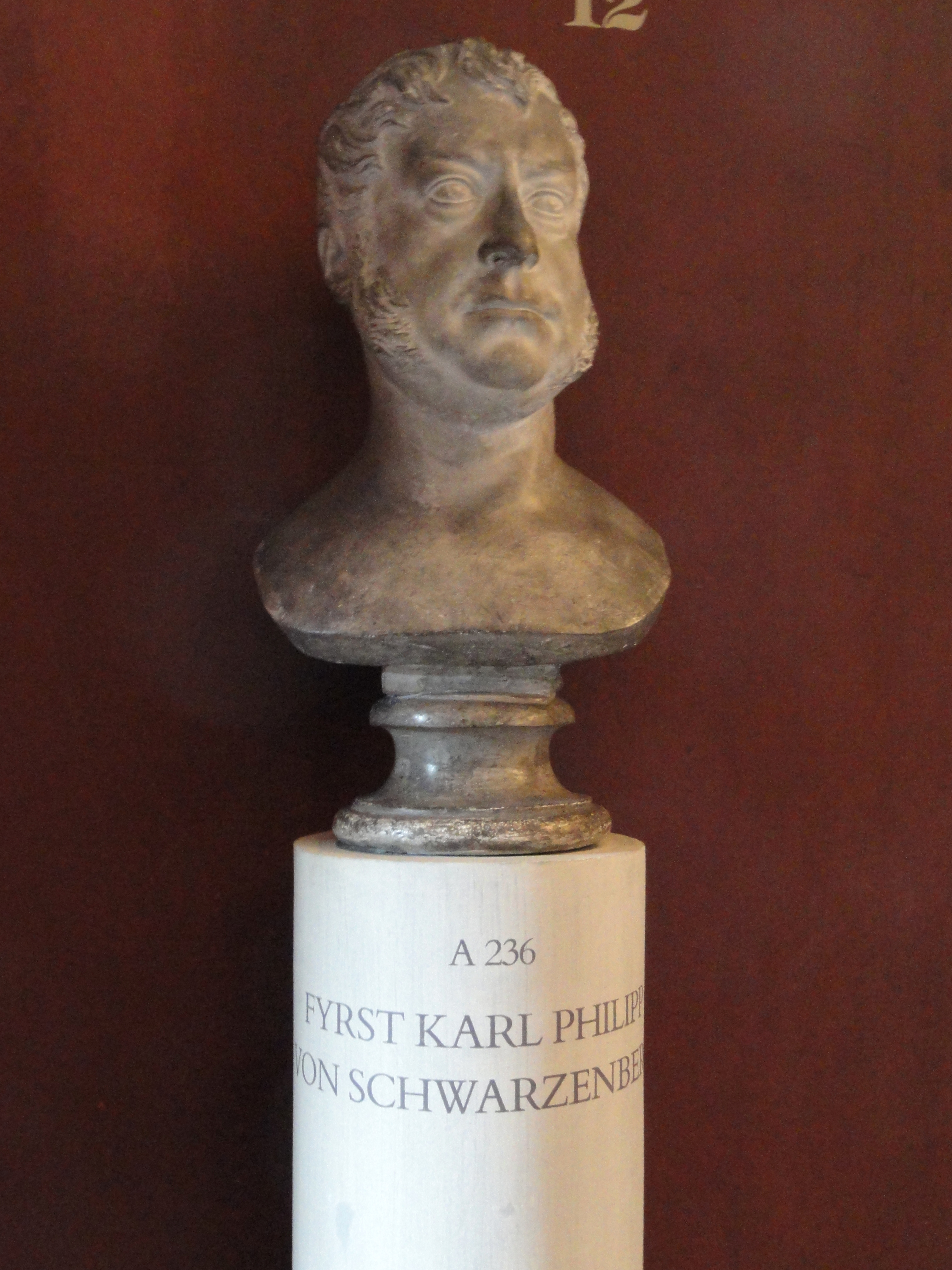 Sculpture in Thorvaldsens Museum, Copenhagen, Denmark. Sculptor: Bertel Thorvaldsen (c. 1770-1844). This artwork is now in the public domain because the artist died more than 70 years ago.